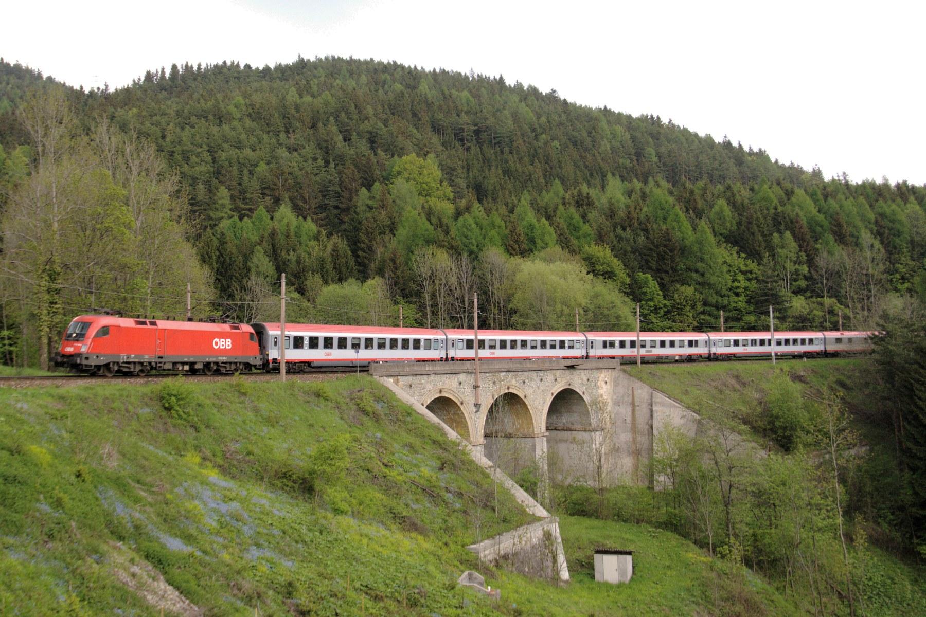 ÖBB EuroCity train with Taurus engine passing the Rumplergraben viaduct on the Semmering line